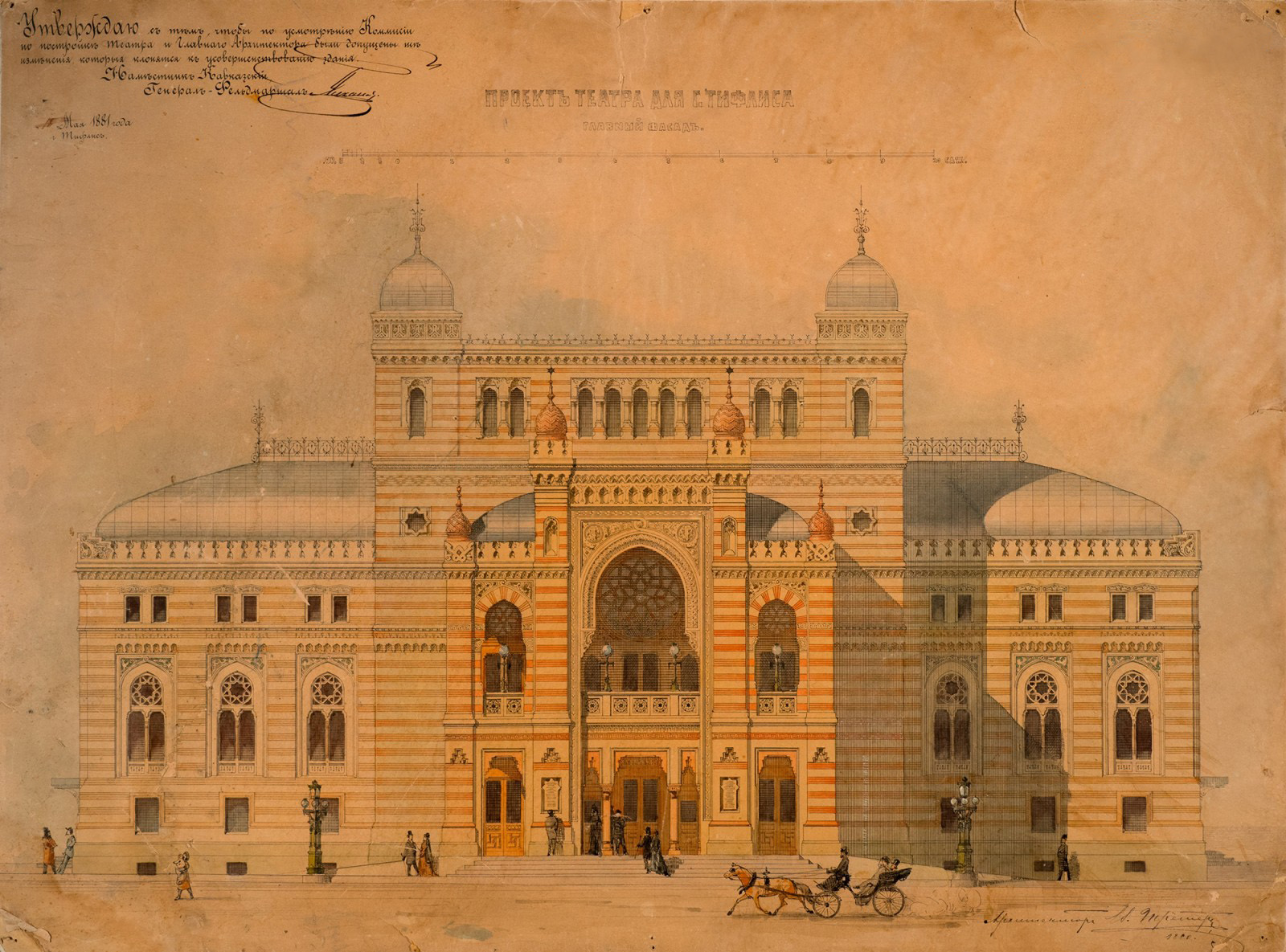 Georgian National Opera Theater draft (1881)